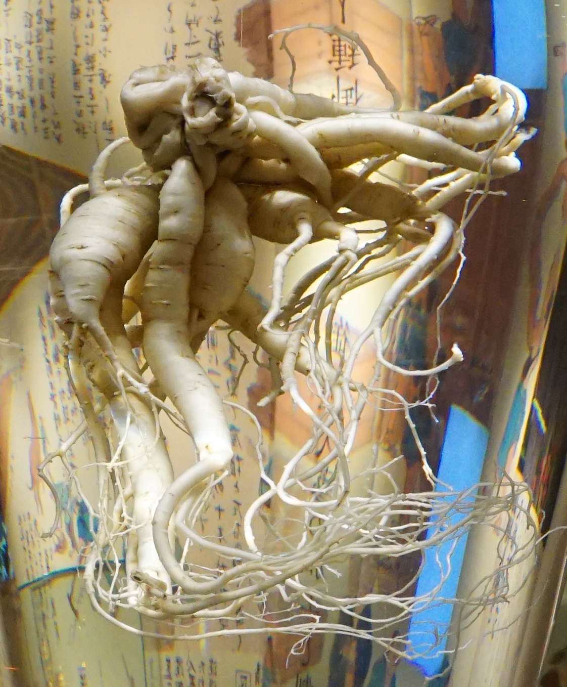 Yuushien in Matsue, Shimane prefecture, Japan.